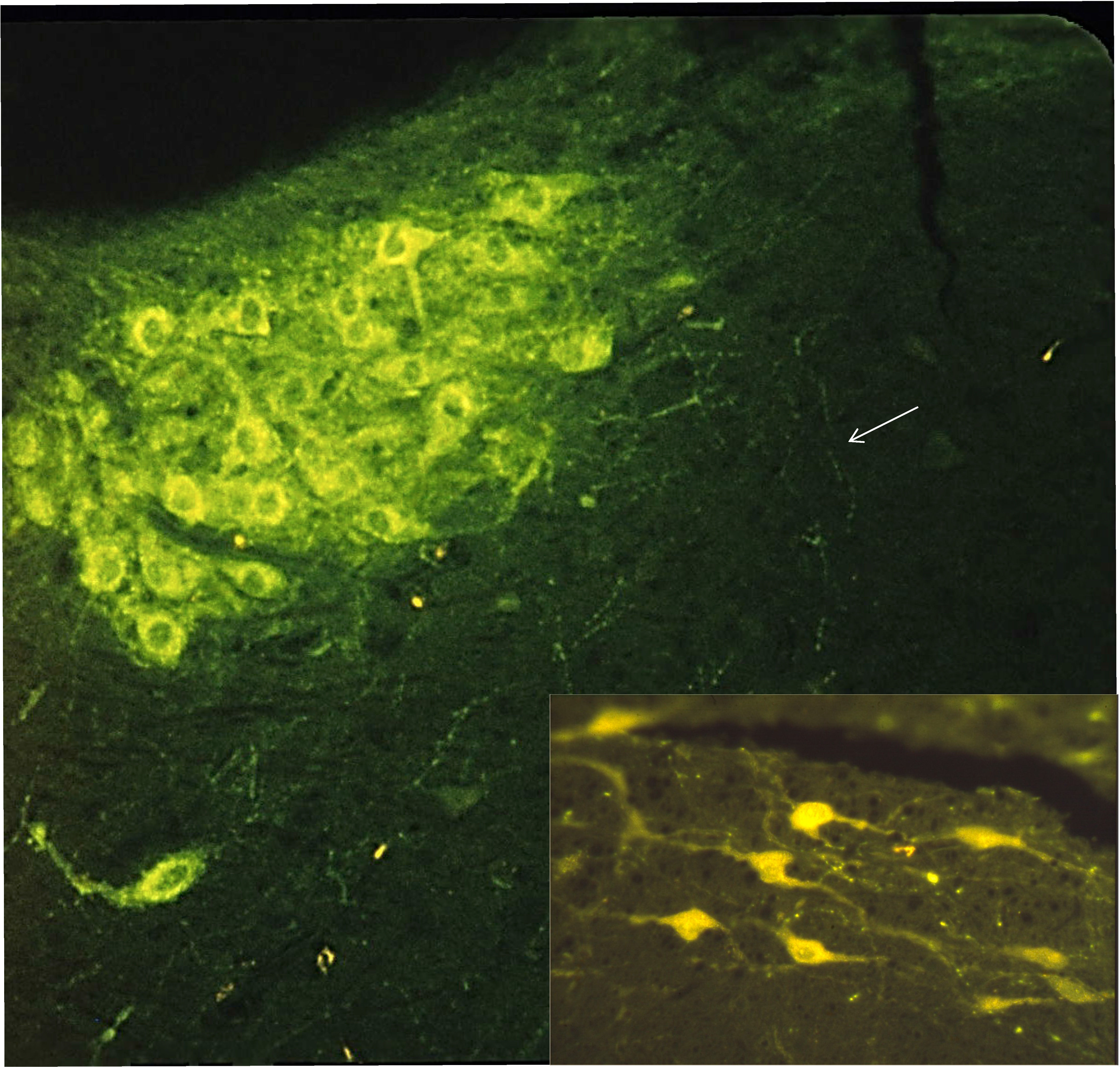 Locus coeruleus cell bodies with noradrenaline and (inset) nucleus raphe obscurus cell bodies with serotonin visualized by formaldehyde fluorescence